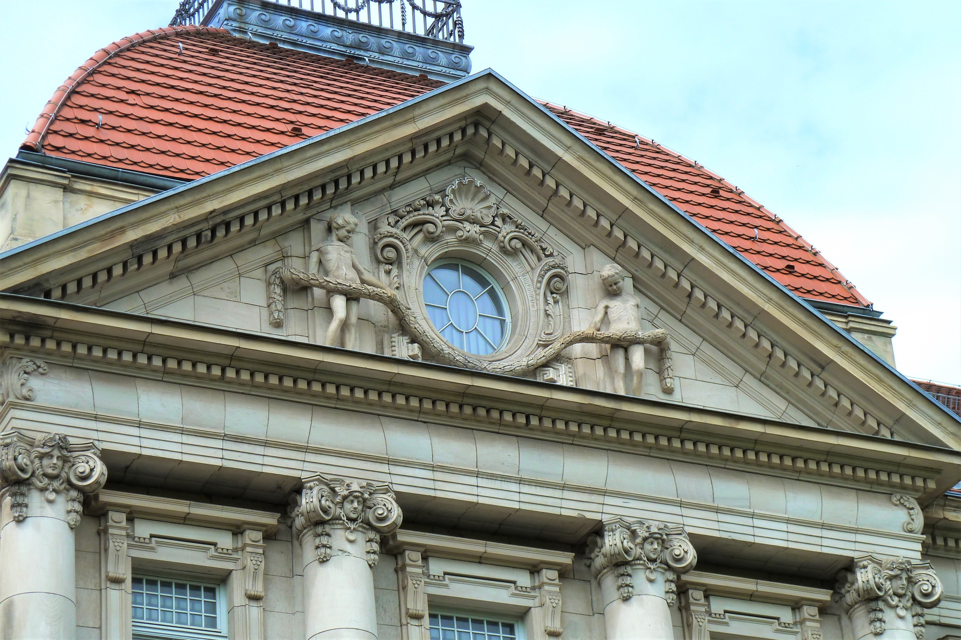 Bank building "Bank for Thuringia" in City of Meiningen, headquarters, built 1909, office building today.